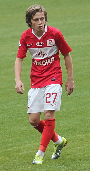 Zhano Ananidze